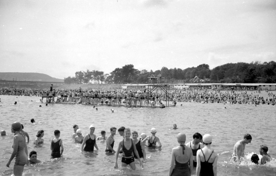 For documentary purposes the original description provided by BAnQ has been retained. Additional descriptive text may be added by Wikimedians with the wiki description = parameter, but please do not modify the other fields.